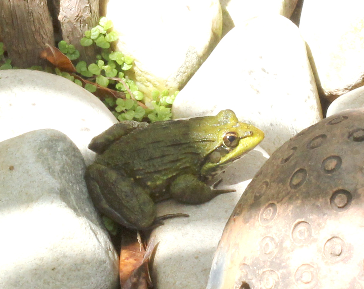 Cape common River Frog, Dusky-throated Frog. Amietia fuscigula Pyxicephalidae. Suburban garden in a green belt.